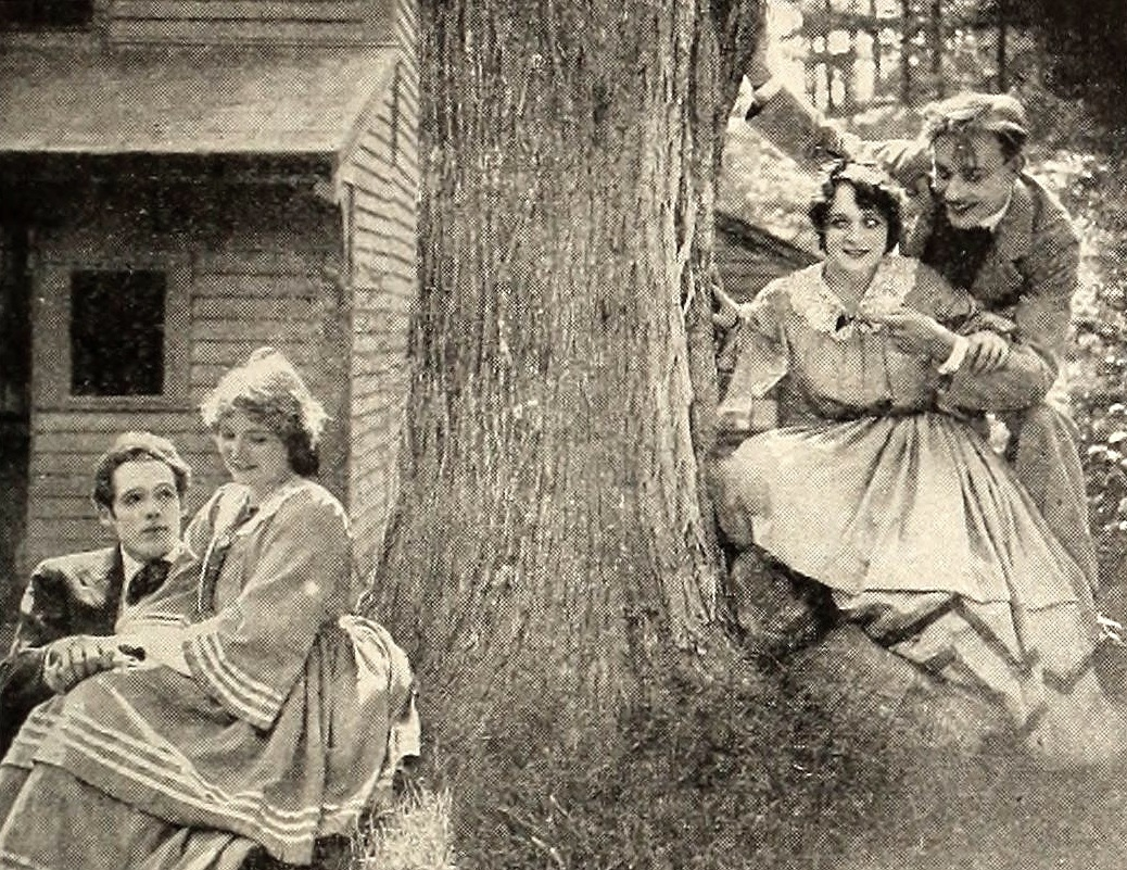 Still from the American film Little Women (1918) with Henry Hull, Isabel Lamon, Dorothy Bernard, and Conrad Nagel, on page 11 of the March 1919 Film Fun.